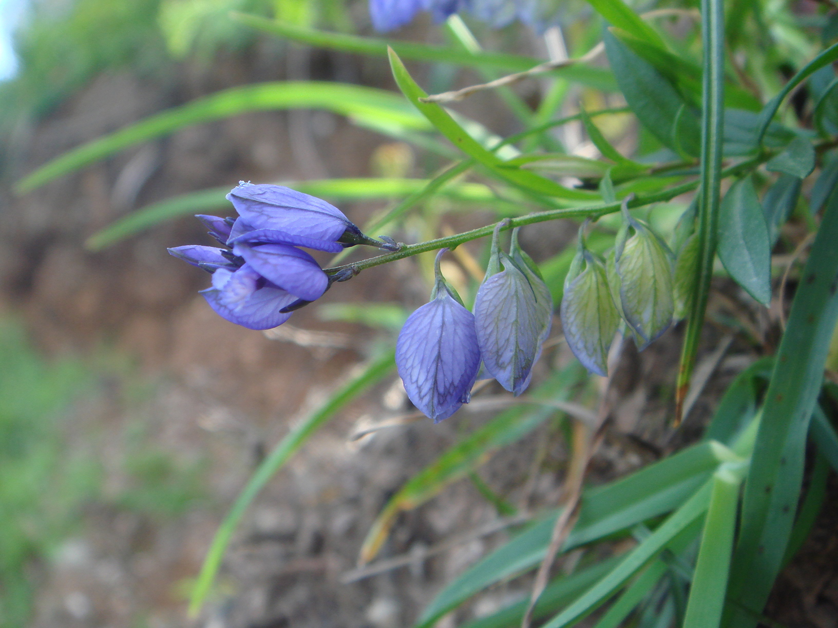 Bética milkwort, Spain, Ceuta.